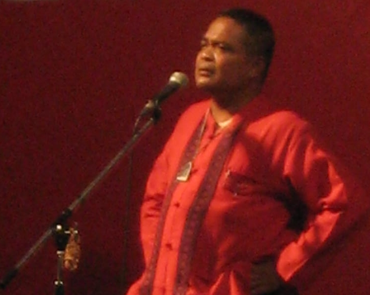 Jatuporn Prompan at Ratchaprasong